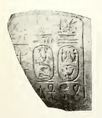 Picture of a piece of bowl with the names of pharaoh Djedhor (= Teos). Faience from Memphis, 30th dynasty, Late Period.